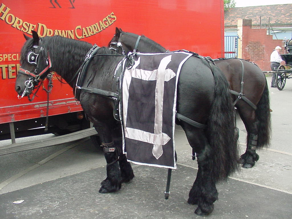 I took this photo.